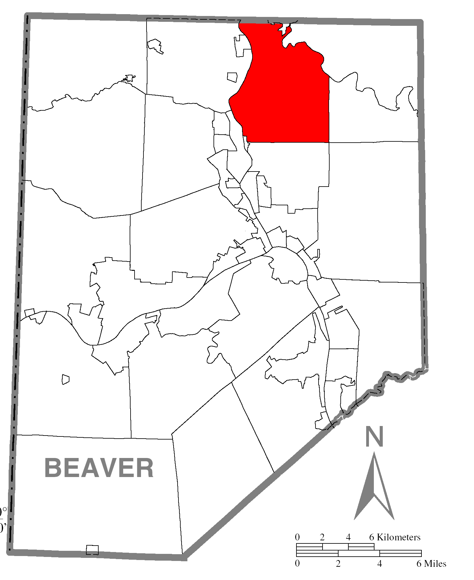 A map of Beaver County showing North Sewickley Township, Pennsylvania (alternate) highlighted on the map.